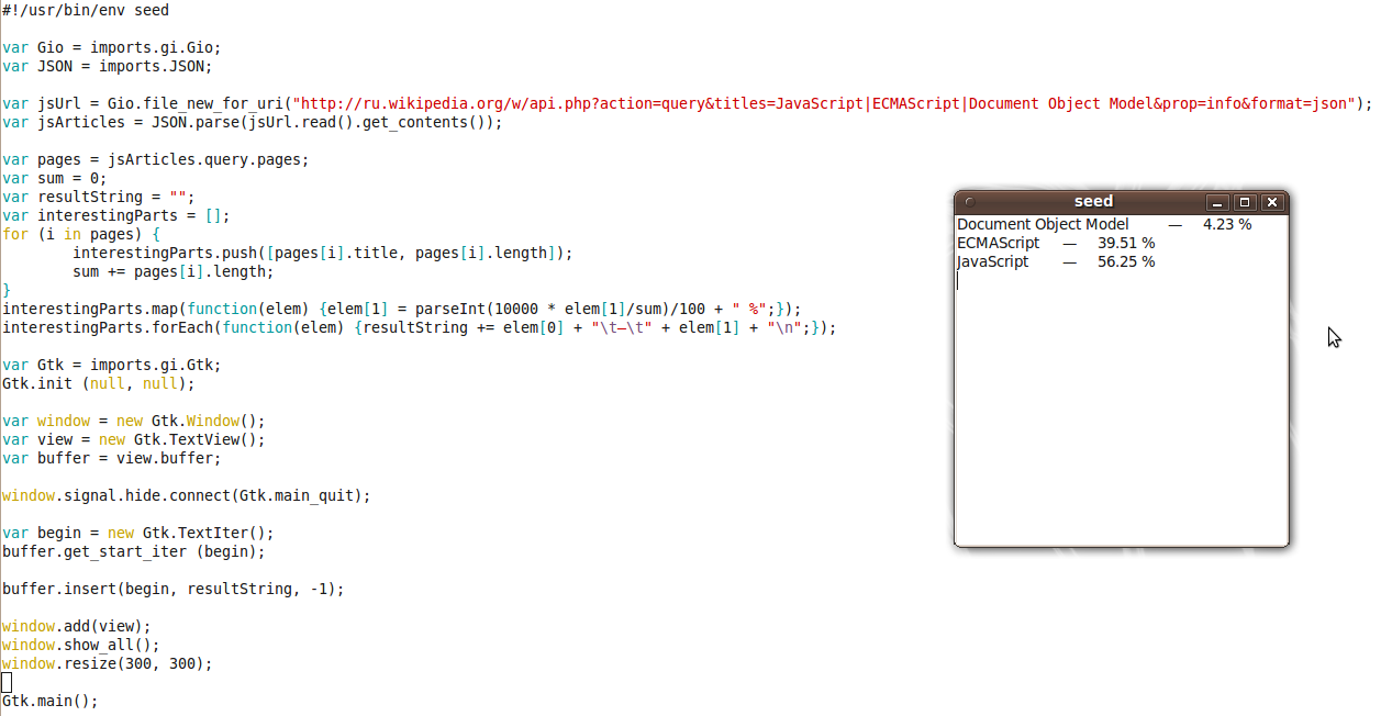 Source code and screenshot of JavaScript application made with Seed for GNOME environment.